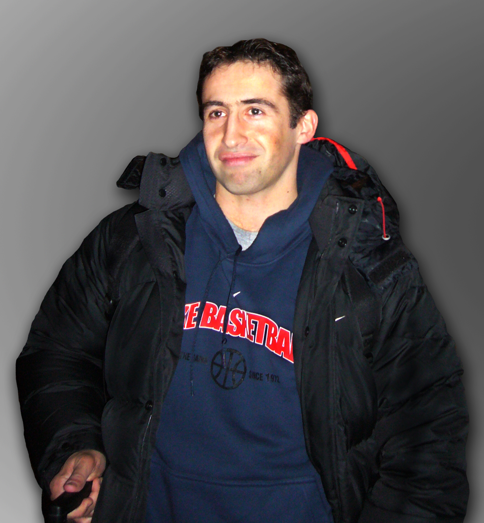 Picture of the french basketball player Frédéric Fauthoux. Picture taken by sanguinez in Clermont-Ferrand after the match between Clermont-Fd and Pau-Orthez on the 20th january 2007.